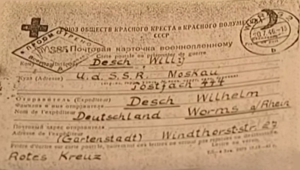 Post card of prisoner of war from camp 444 in Mingachevir in Mingachevir history museum